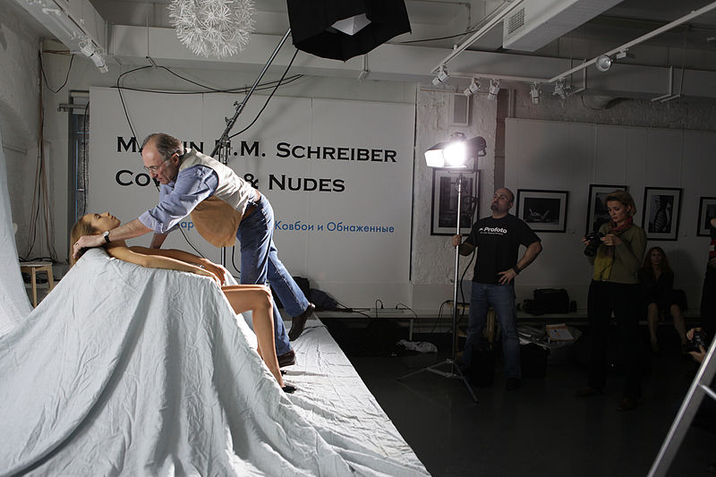 Martin Schreiber's workshop at the Lumiere Brothers Center for Photography